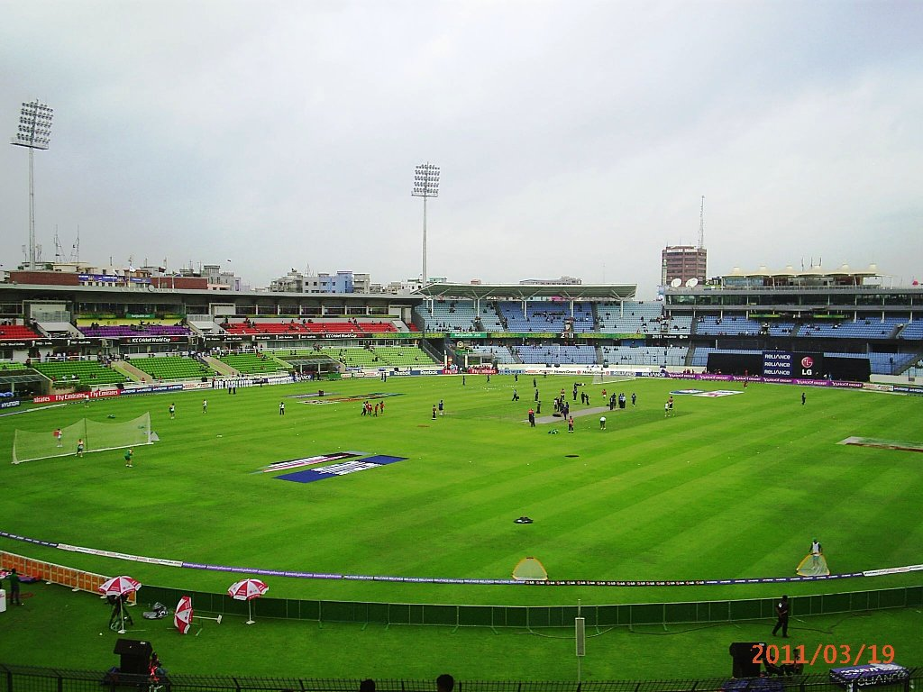 A view of Sher-e-Bangla National Cricket Stadium from South Gallery